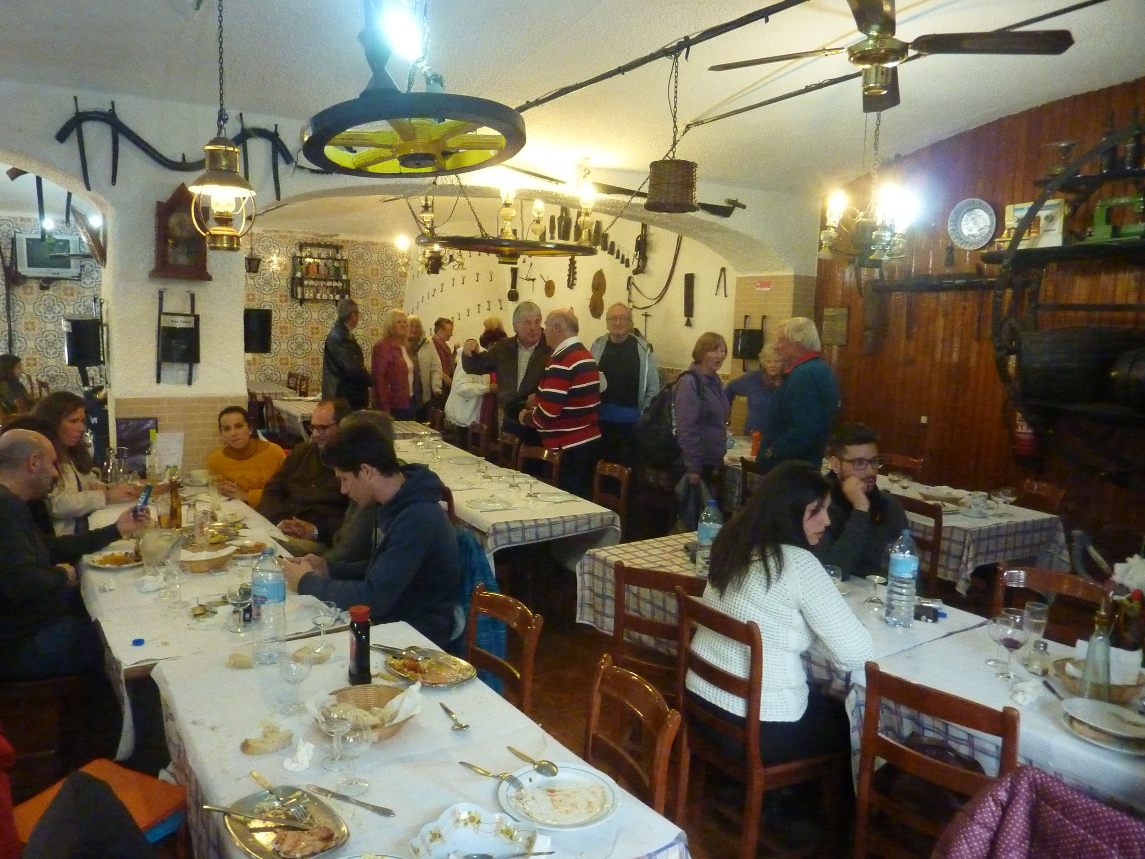 Algarve - Silves - end of the walking group meal